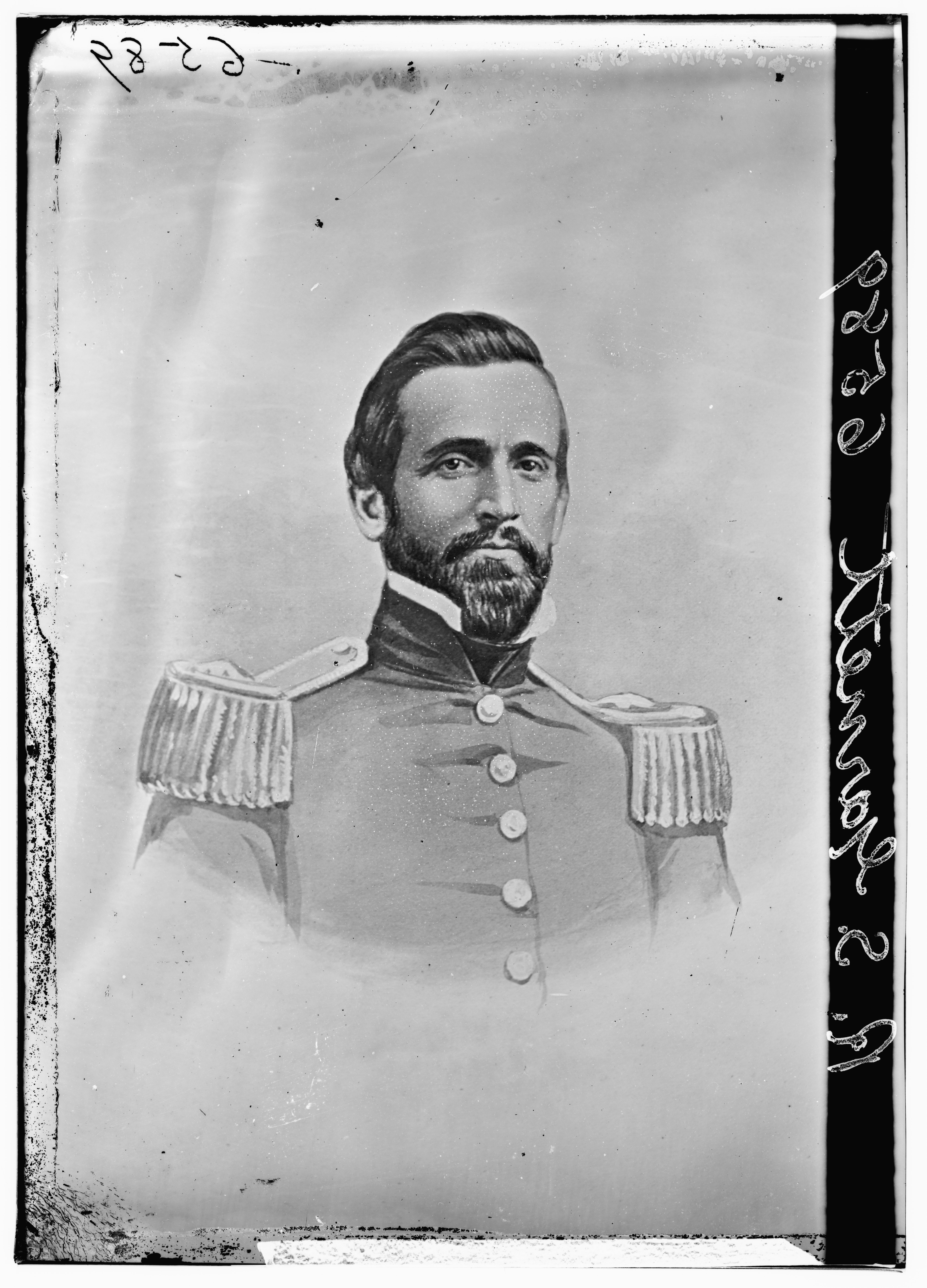 Title: Richard Brooke Garnett CSA Physical description: 1 negative